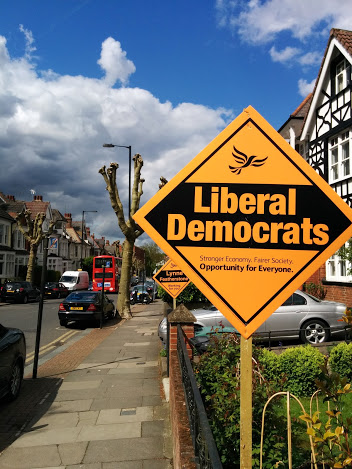 Two stakeboards showing support for the Liberal Democrats and their candidate Lynne Featherstone during the 2015 general election campaign, in the constituency of Hornsey & Wood Green